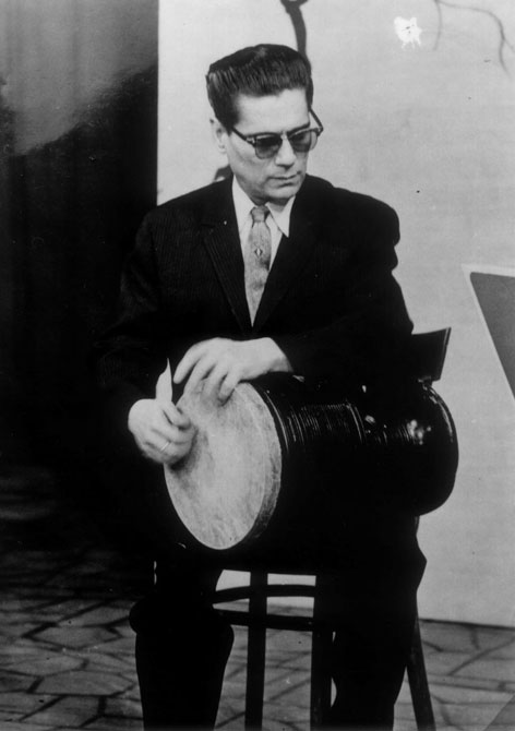 Hossein Tehrani (died in 1974 in Tehran) is one of the most celebrated musicians of Persia [Iran]. He had a key role to teach and perform tombak in 20th-century Persian music.